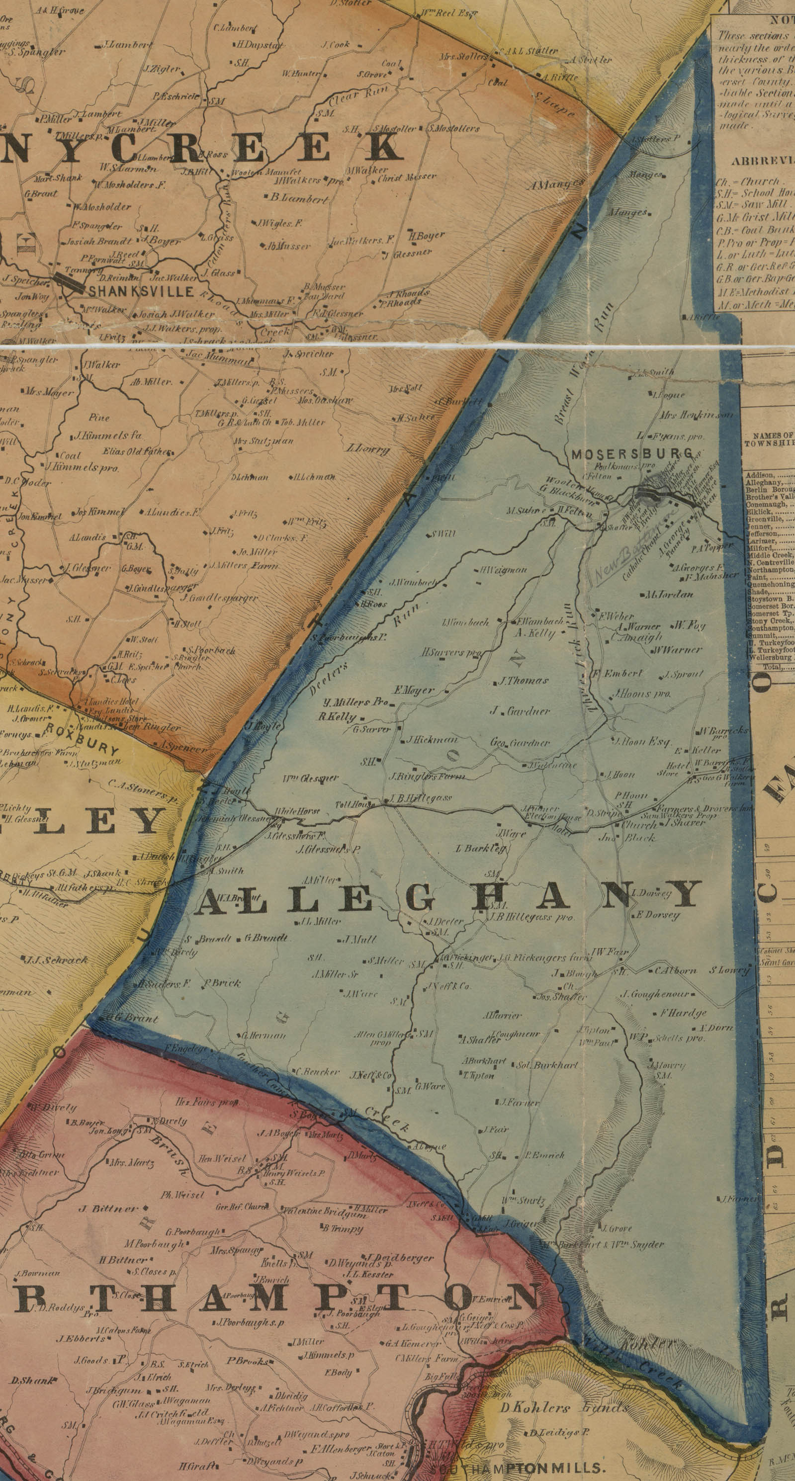 Map of Allegheny Township, Somerset County, Pennsylvania, taken from 1860 Edward L. Walker map of Somerset County available at the Library of Congress website